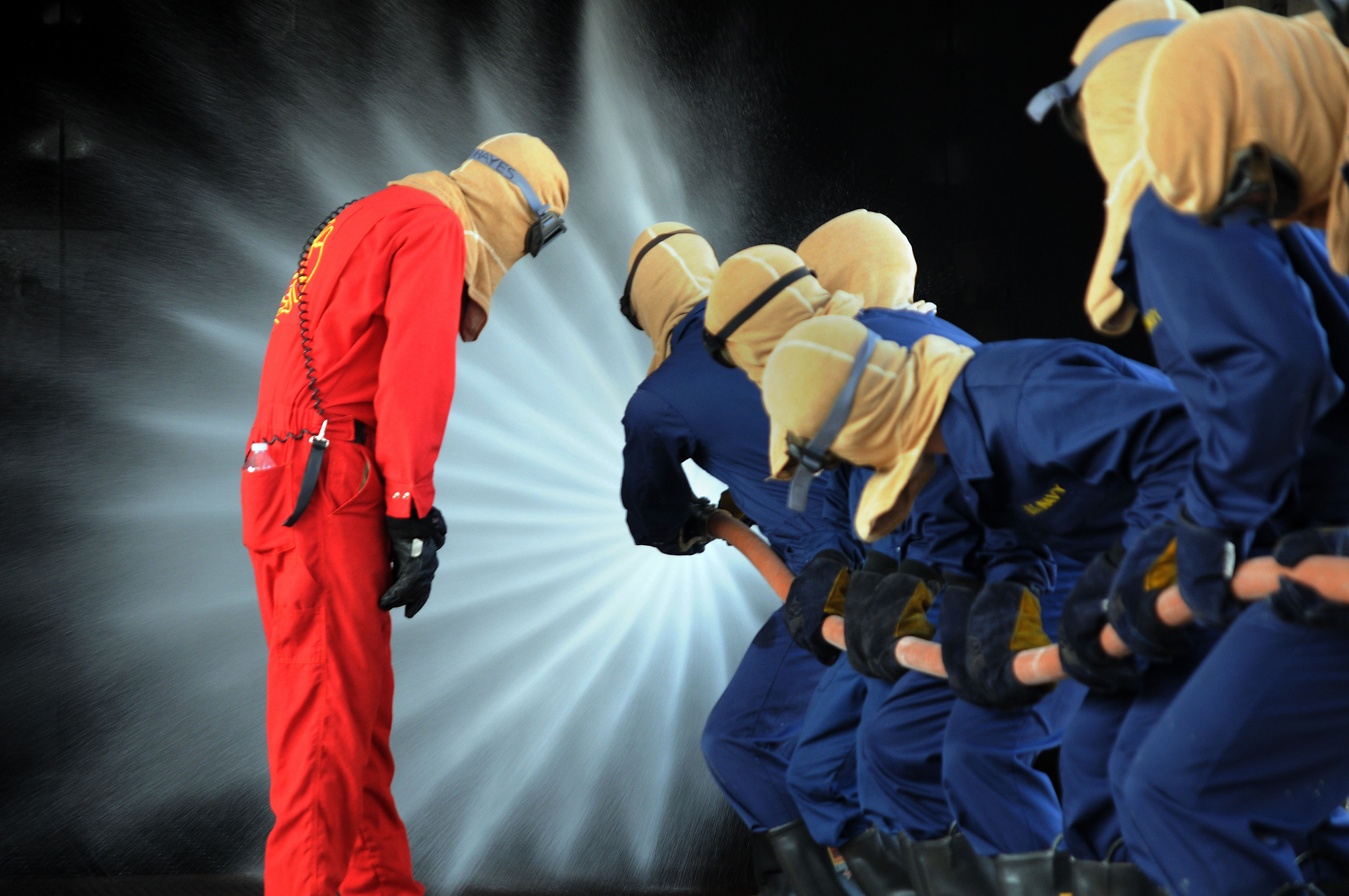 Midshipmen practice hose-handling techniques at the firefighting trainer at Naval Base San Diego, Calif., on June 4, 2010. Midshipmen from the U.S. Naval Academy and ROTC programs conducted an eight-week series of week-long training exercises in surface warfare activities.